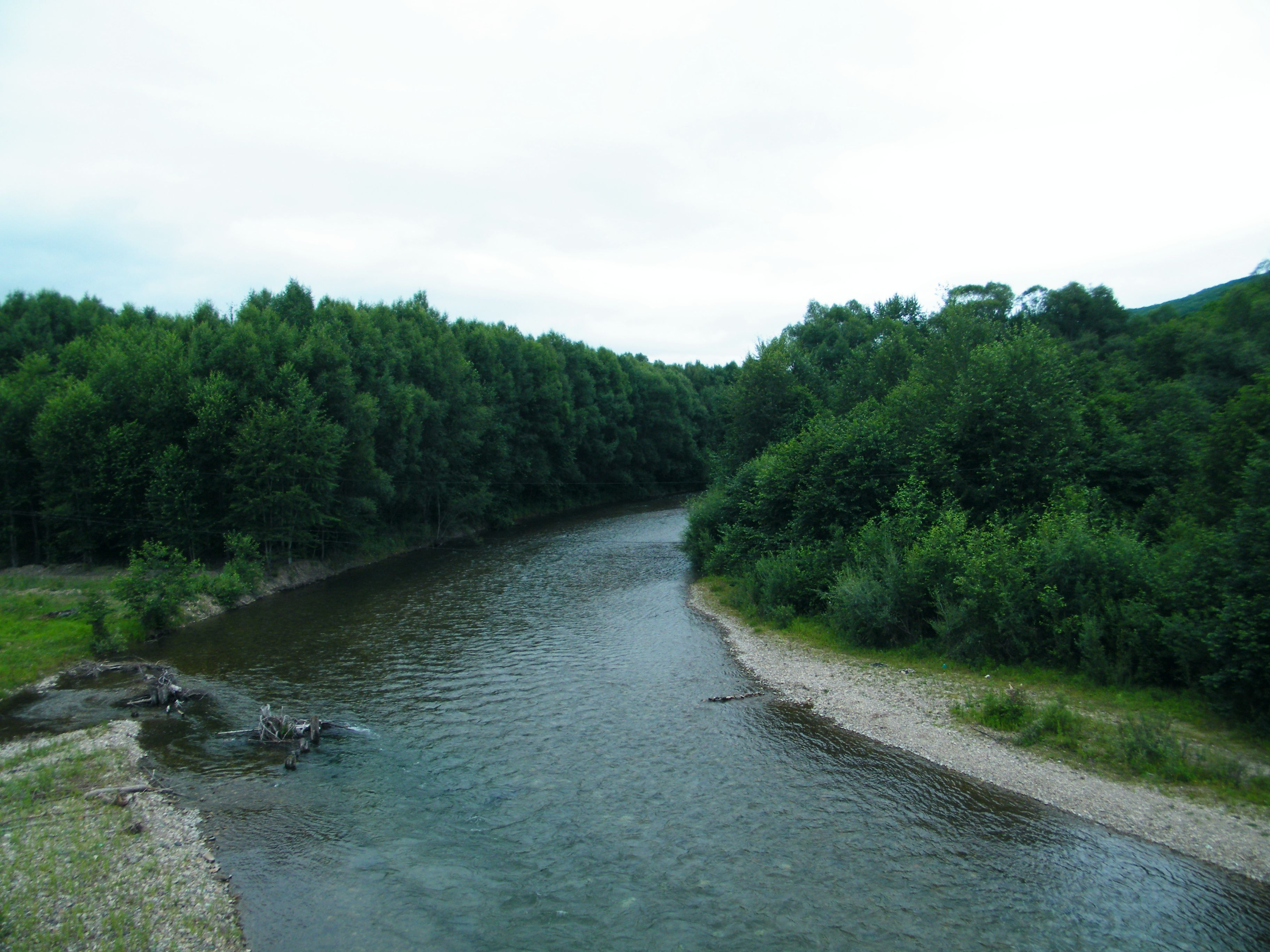 Река Высокогорская, Кавалеровский район